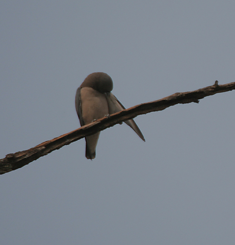 Ashy Woodswallow Artamus fuscus at Jayanti in Buxa Tiger Reserve in Jalpaiguri district of West Bengal, India.